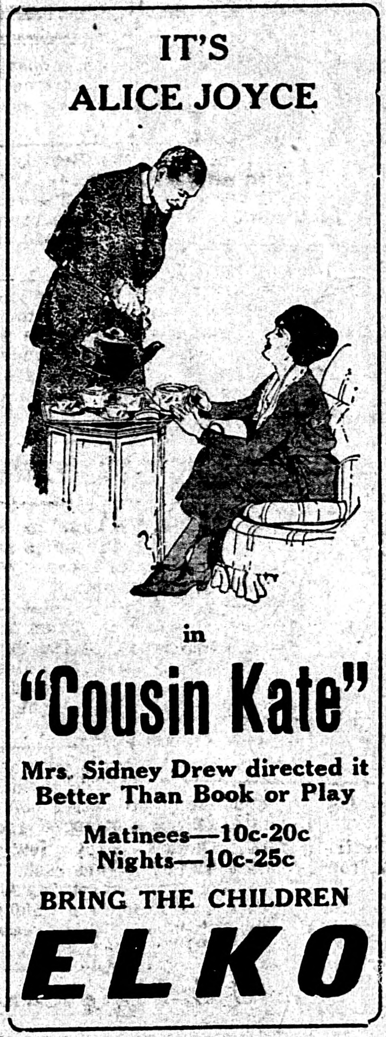 Cousin Kate is a 1921 silent film directed by Mrs. Sidney Drew and starring Alice Joyce. This is a newspaper advert for the film.